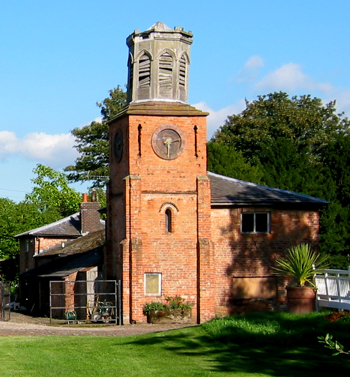 Clock tower and service block, Combermere Abbey